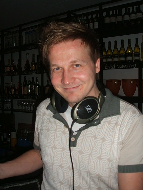 Slow en "La Cocina", Helsinki picture taken in La Cocina, Helsinki, Finland